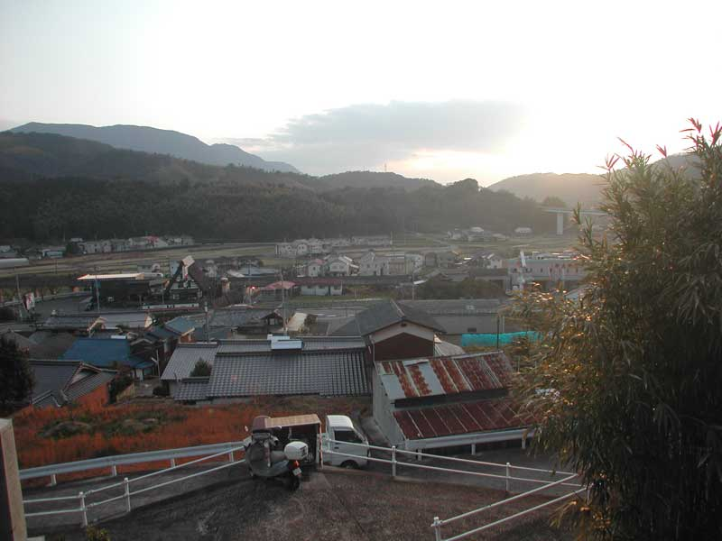 Place of Fukuoka's family home, now farmed in a modern, conventional manner.